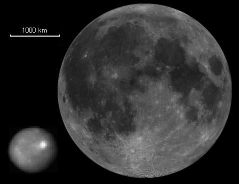 Ceres in comparison with The Moon (Luna). Scale is 10km/pixel. Uses real image of Ceres (and also the moon) This image was created by the union of (the following) two images: 1. Image (of Ceres) from the Hubble Space Telescope - Link. 2. Image of (the Near Side of) the Moon - Link